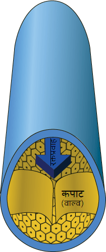 Diagram of a cross section of a vein with valves - hindi